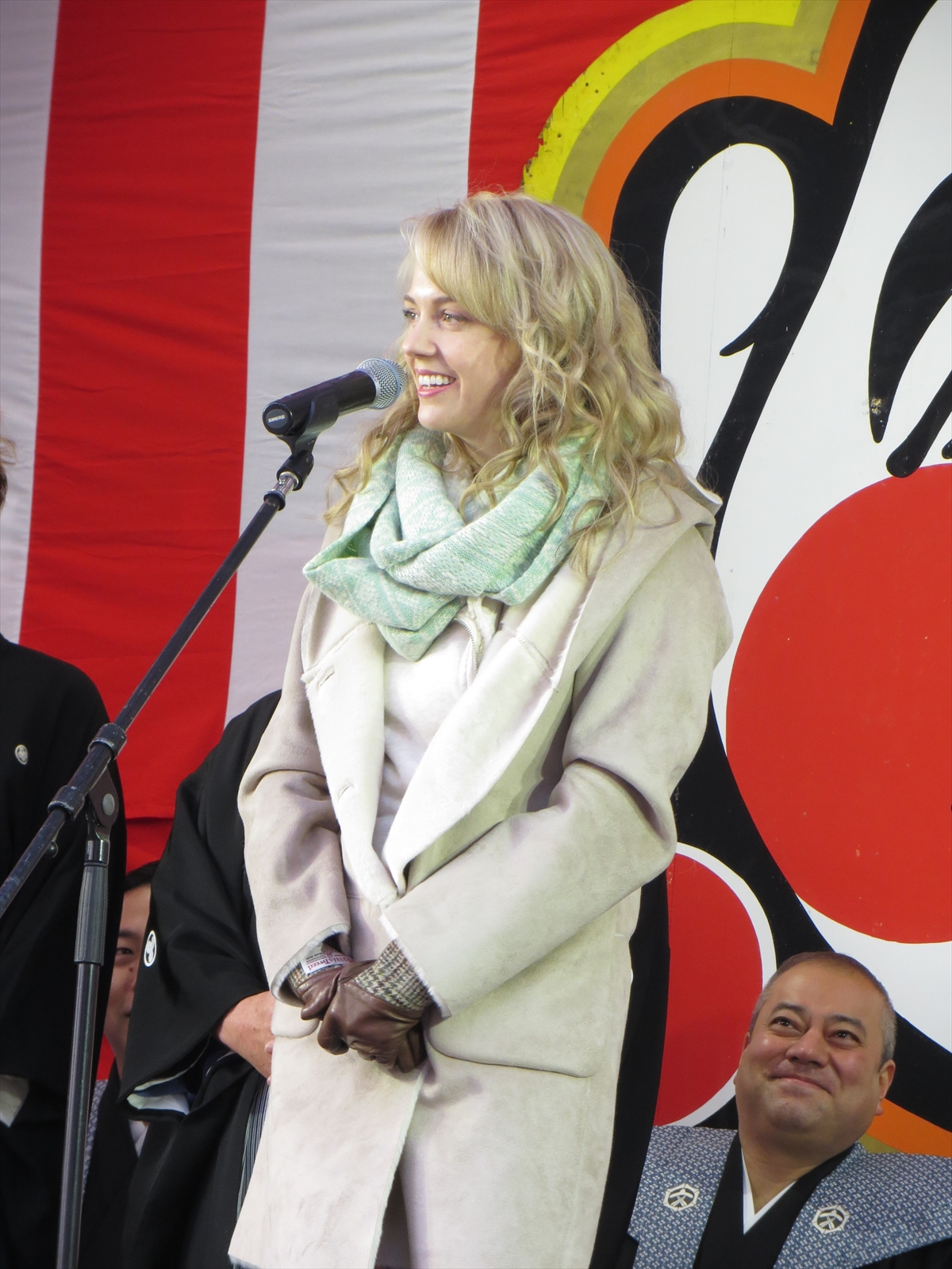 Charlotte Kate Fox.